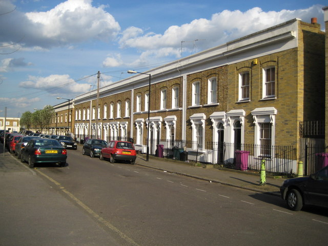 Bromley by Bow: Arrow Road, E3 A lot of the Victorian housing stock in this area has been lost but there are odd groupings that survive. This terrace is on the south side of the road, but note the modern terrace further down, where the architect has attempted, not very successfully, to replicate the design of the older houses. If you look at the aerial photography, with the birds eye view looking at the rear of the terrace, on the difference between the two terraces is quite startling. The older ones have individual pitched roofs behind the front parapet wall while the newer ones have one continuous pitched roof with the ridge line parallel to the road. The older ones have individual rear extensions while the new ones have no extensions at all. Up to and including the edition of 1899 the Ordnance Survey mapping of this area clearly shows this street as Orwell Road. However by 1920 the OS have the current name of Arrow Road. Quite why Orwell fell out of favour is a mystery.